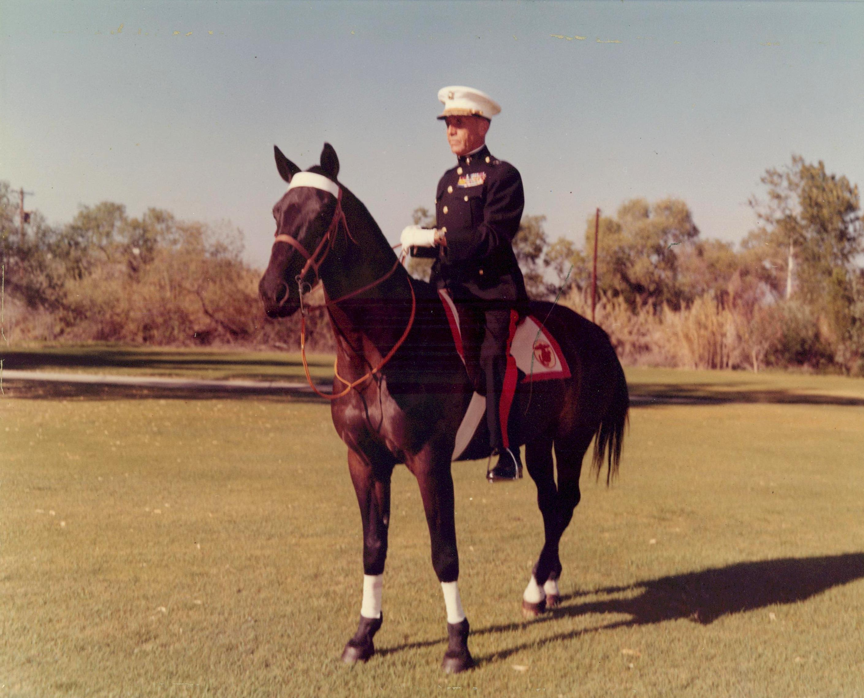 From the Alan Shapley Collection (COLL/468) at the Marine Corps Archives and Special Collections OFFICIAL USMC PHOTOGRAPH